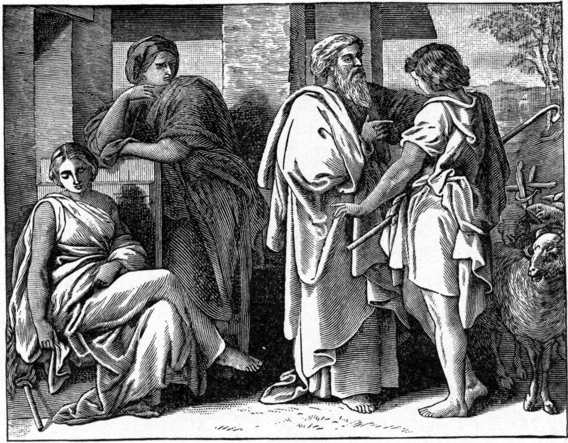 Jacob Talks with Laban; caption: "Jacob has come to Rachel's home. He is talking with her father. Her father's name is Laban. Jacob is asking Laban if Rachel may not be his wife. Laban says that if Jacob will stay and work for him a long time and take care of his flocks, then Rachel shall be his wife. So Jacob stayed and worked for Laban many years. He took care of Laban's sheep, and goats, and camels; and afterward Laban gave Rachel to him for his wife." Illustration from the 1897 Bible Pictures and What They Teach Us: Containing 400 Illustrations from the Old and New Testaments: With brief descriptions by Charles Foster